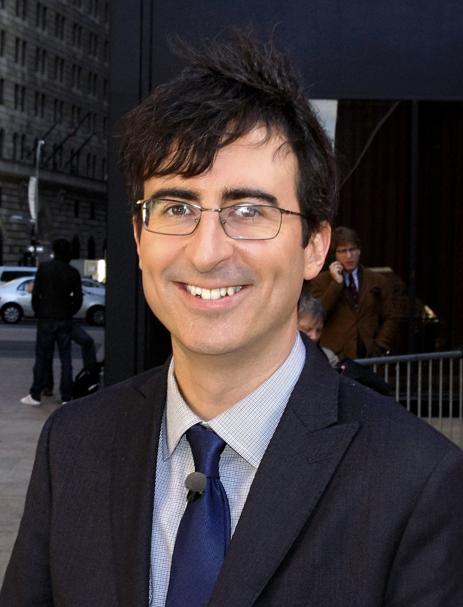 The Daily Show correspondent John Oliver at Occupy Wall Street on Sunday October 16, Day 31.